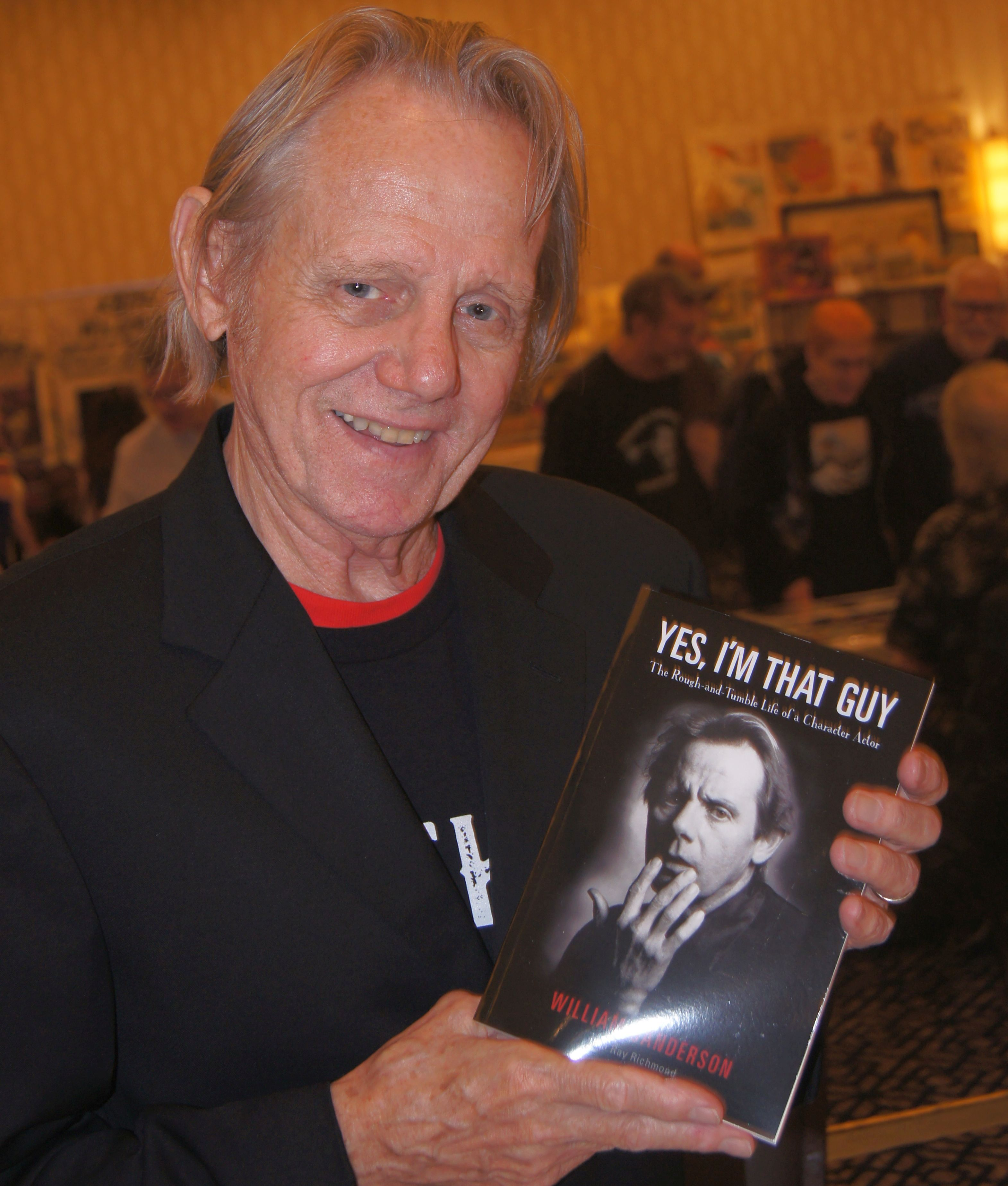 Mid Atlantic Nostalgia conv Hunt Valley M.D. Sept 2019